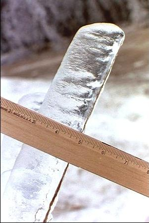 Ice Storm of '98 - Ice thickness